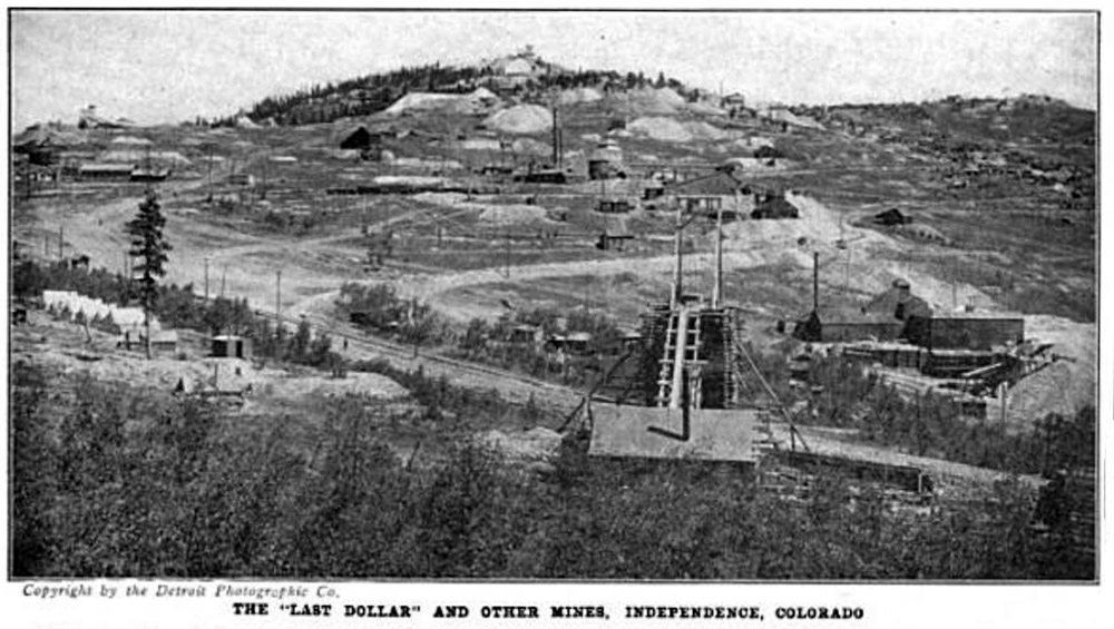 photograph, photo caption: THE "LAST DOLLAR" AND OTHER MINES, INDEPENDENCE, COLORADO